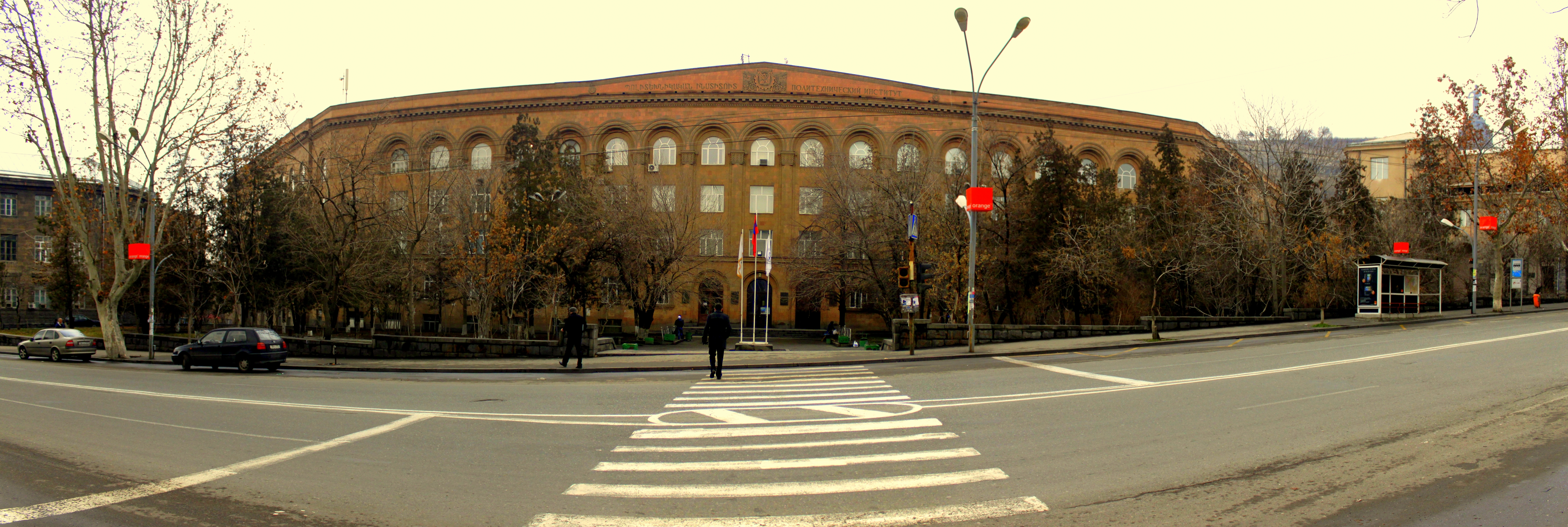 National Polytechnic University of Armenia, building 2 (main building), on Teryan Street in Yerevan. Panorama stitched from 3 pictures using Hugin.